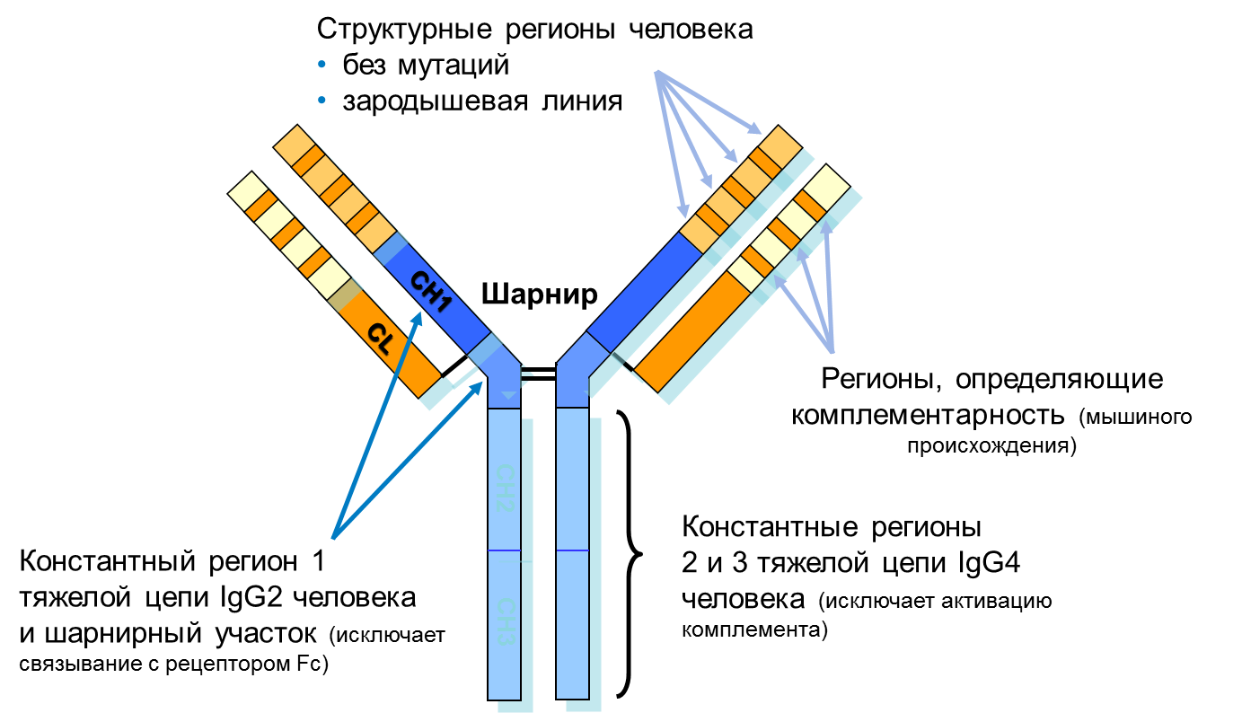 Молекула Экулизумаба